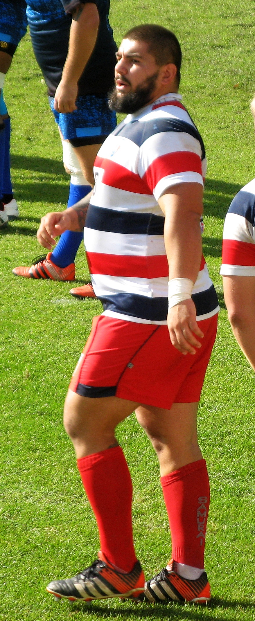 Romanian rugby union football player, Andrei Florescu, player of CSA Steaua București rugby club seen in a match against CSM Baia Mare in Round 5 of Romanian Rugby SuperLiga in September 2017